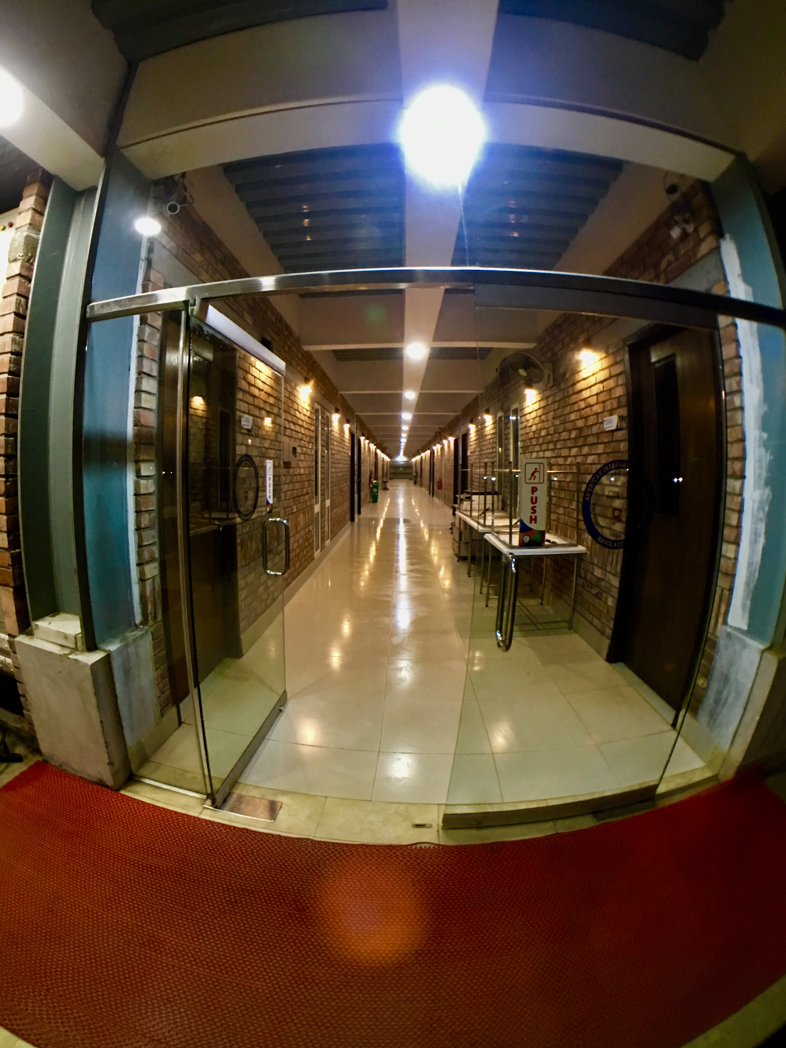 AIUB interior at night